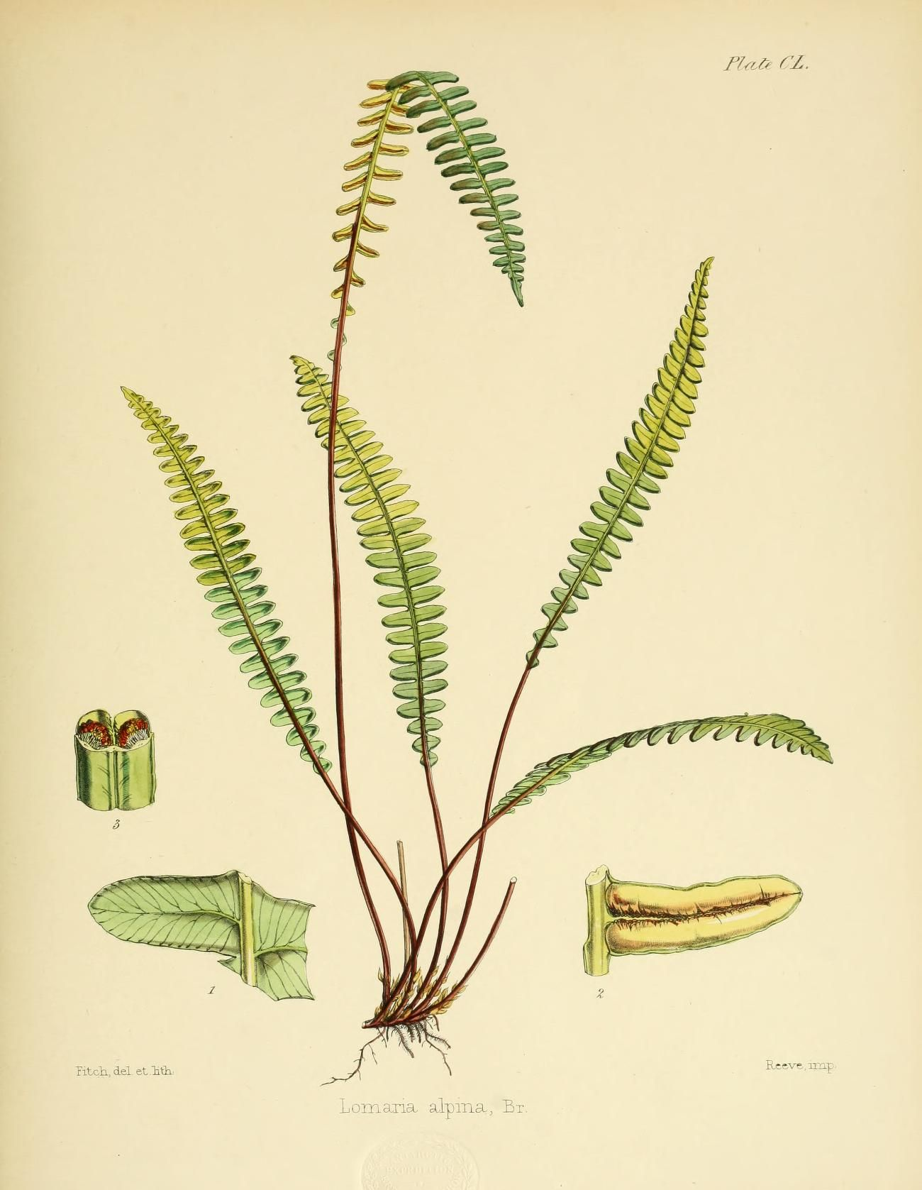 jpg of Plate CL of Hooker's Flora Antarctica. Lomaria alpina Br.